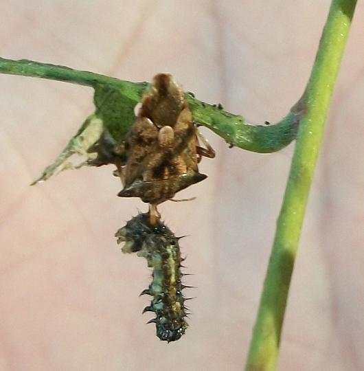 Assassin Bug feeding on larvae of Boisduval's Tree Nymph, at Ilanda Wilds.